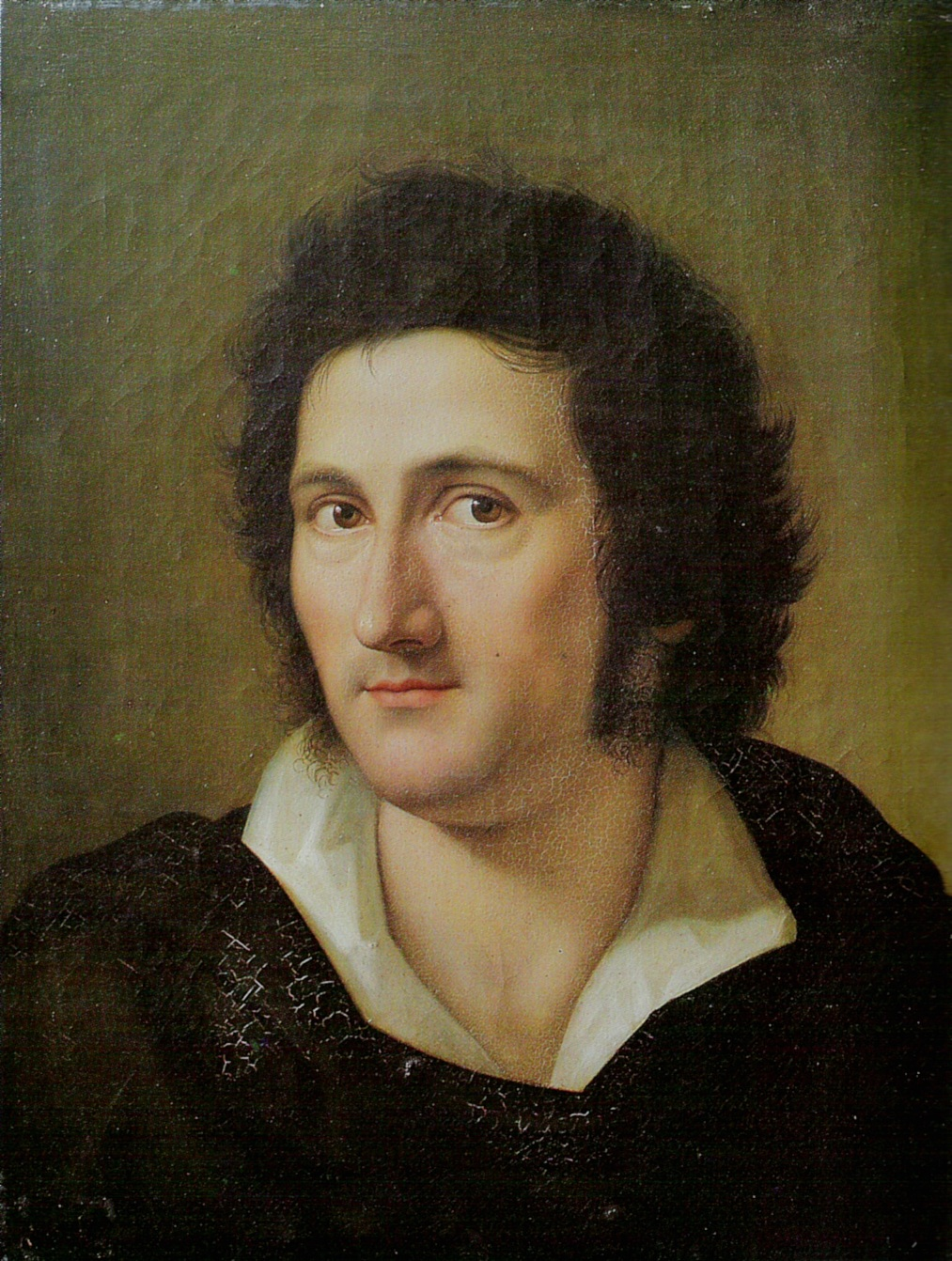 Portrait de Tommaso Minardi par Carl Adolf Senff